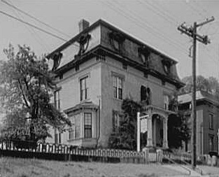 The Franklin Pierce House at 52 South Main Street, Concord, New Hampshire; not to be confused with the Pierce Manse, also in Concord. Image has been cropped from the original.